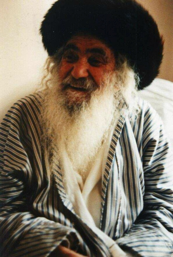 Rabbi Yisroel Oddeser, head of the Breslov Hasidic movement